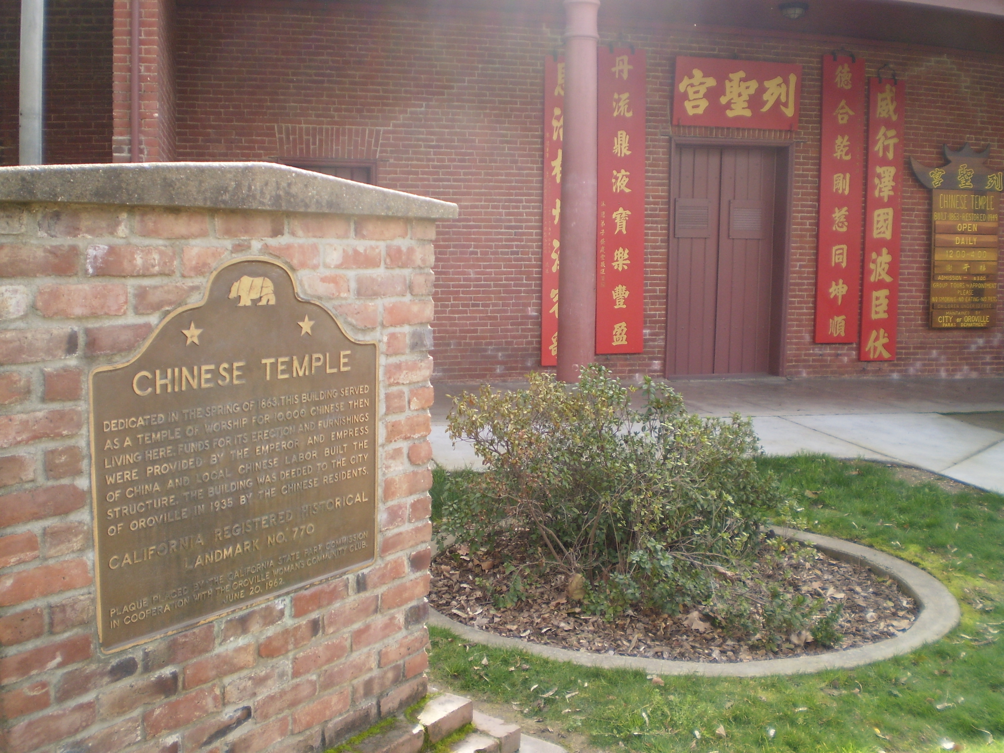 The Oroville Chinese Temple — located in Oroville, in Butte County, northern California. View of the entrance, and temple's historical marker. Built in 1856 as a Chinese community center and Buddhist—Confucian temple. A present day Chinese American history museum.